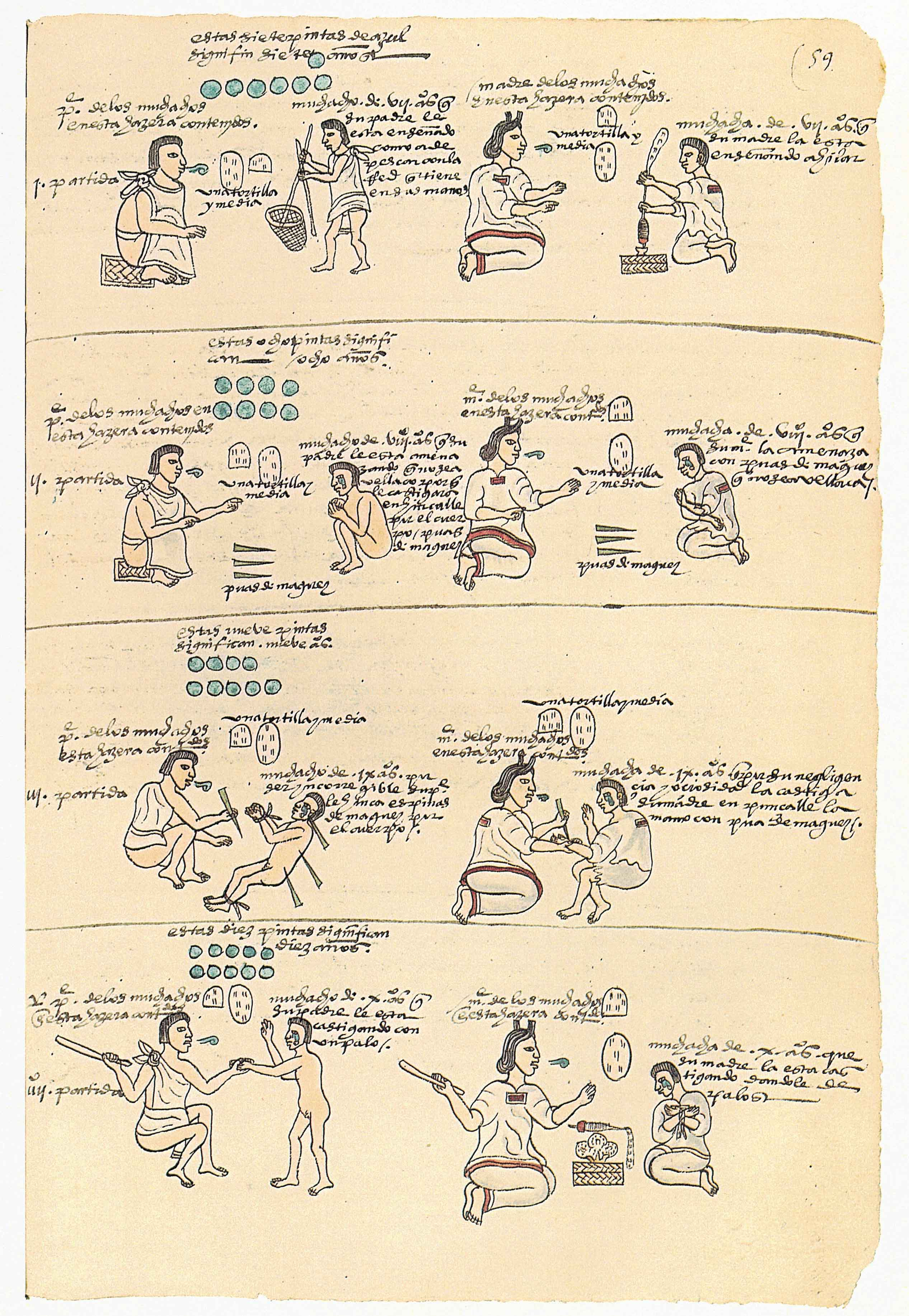 Folio 59r of the Codex Mendoza, a mid-16th century Aztec codex.